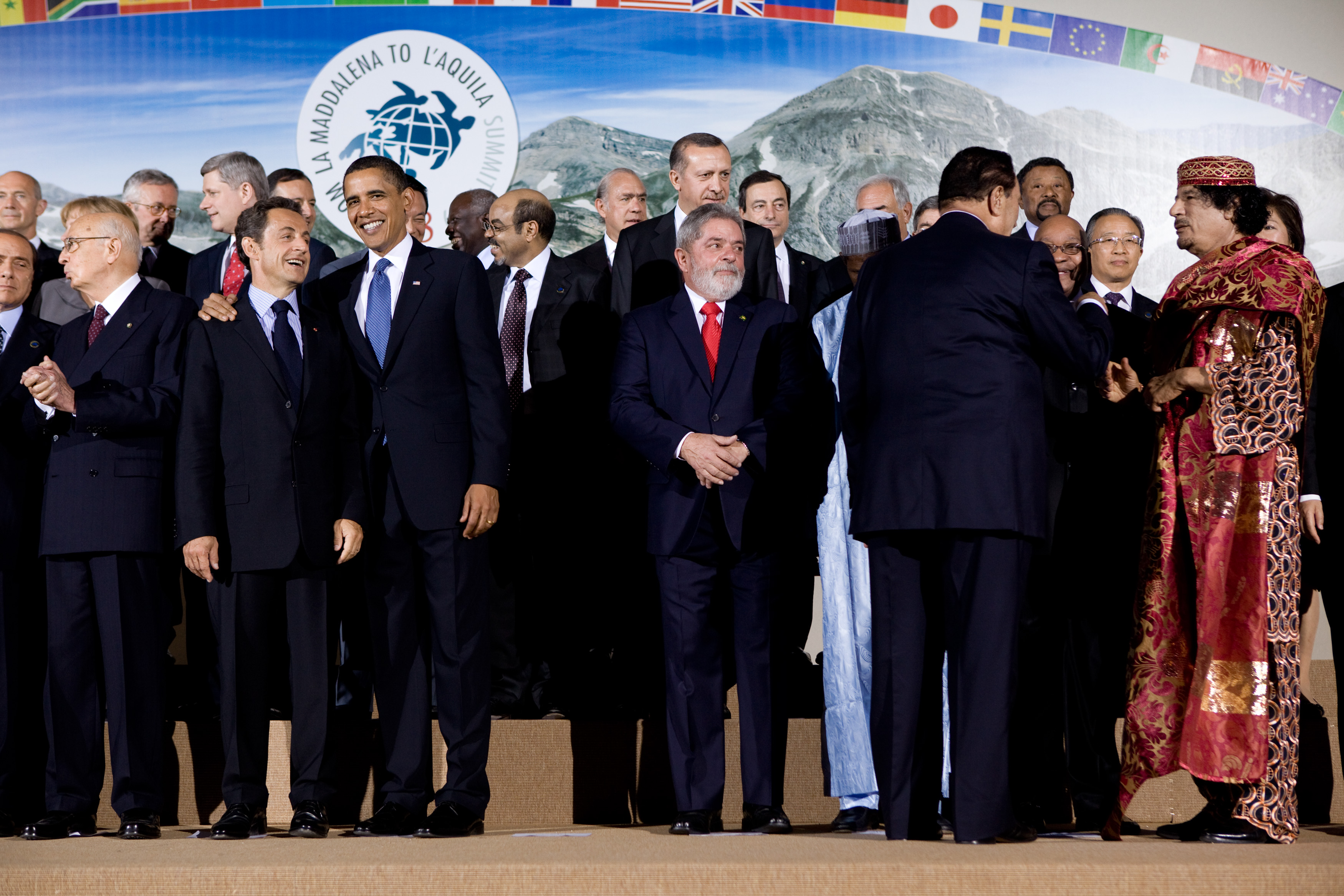 A "family" photo at the G-8 summit in L'Aquila, Italy, July 9, 2009. First rank: Silvio Berlusconi, Giorgio Napolitano (president of Italy), Nicolas Sarkozy, Barack Obama, Meles Zenawi (second row), Lula, Hosni Mubarak (back) and Muammar Gaddafi.